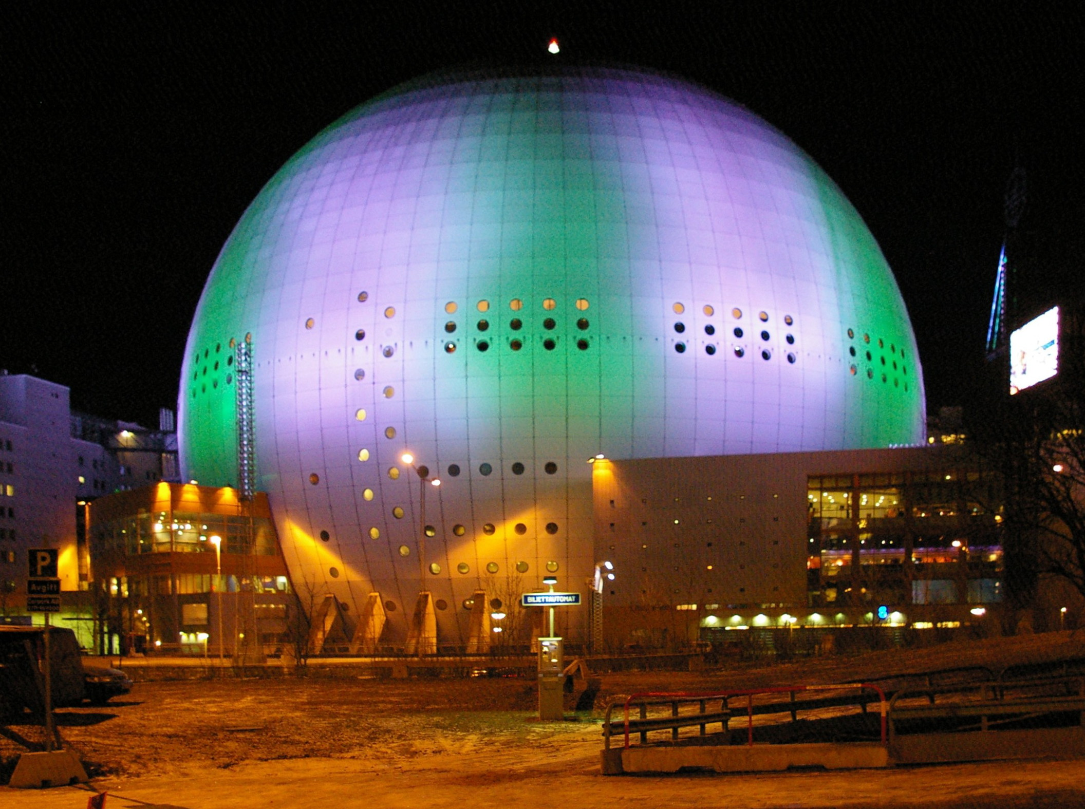 Globen (The Globe Arena), Stockholm, Sweden, December 20, 2006. Photo: Fredrik Posse/Stryngford Photo